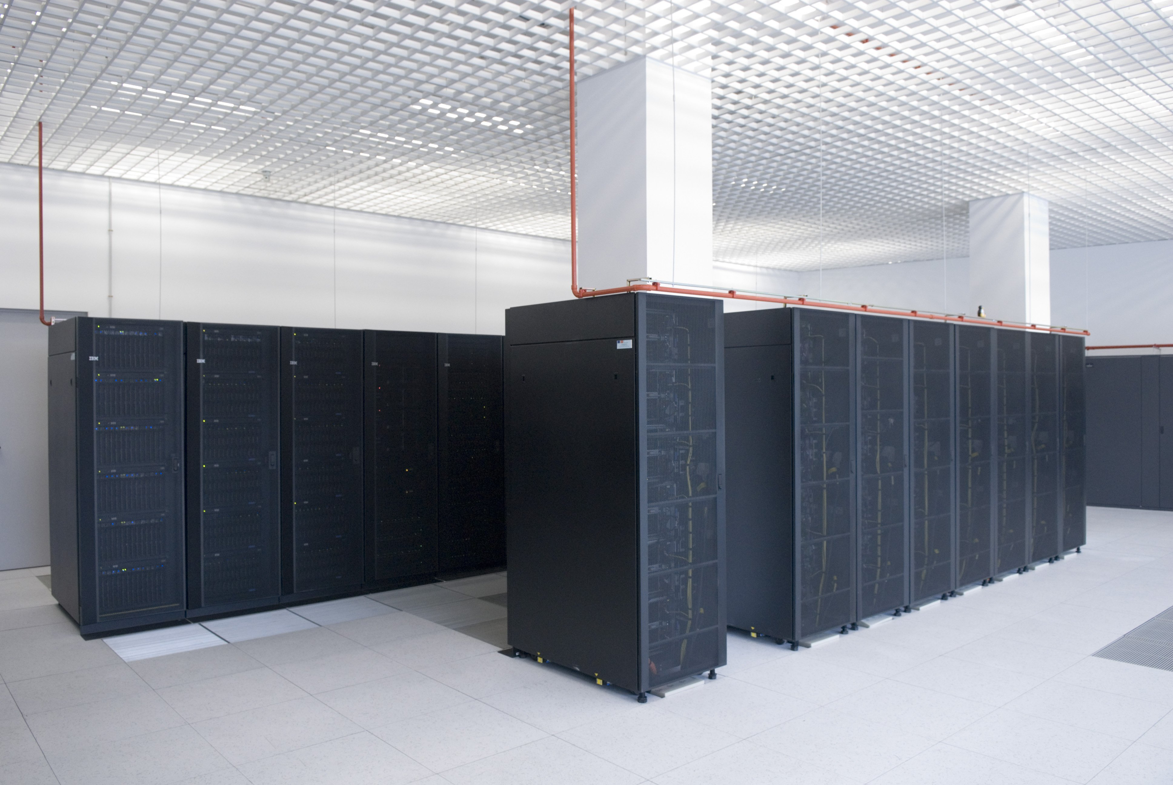 Magerit Supercomputer housed by Supercomputing and Visualization Center of Madrid (CeSViMa), Technical University of Madrid (UPM)